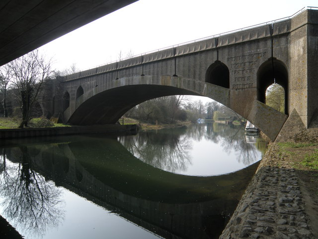 Wansford bridge The village of Wansford was bypassed In 1929, a new bridge was required to span the river Nene. This concrete structure was built to carry the Great North Road. Motorists now use this bridge for north bound traffic whilst a new structure carries the south bound carriageway.